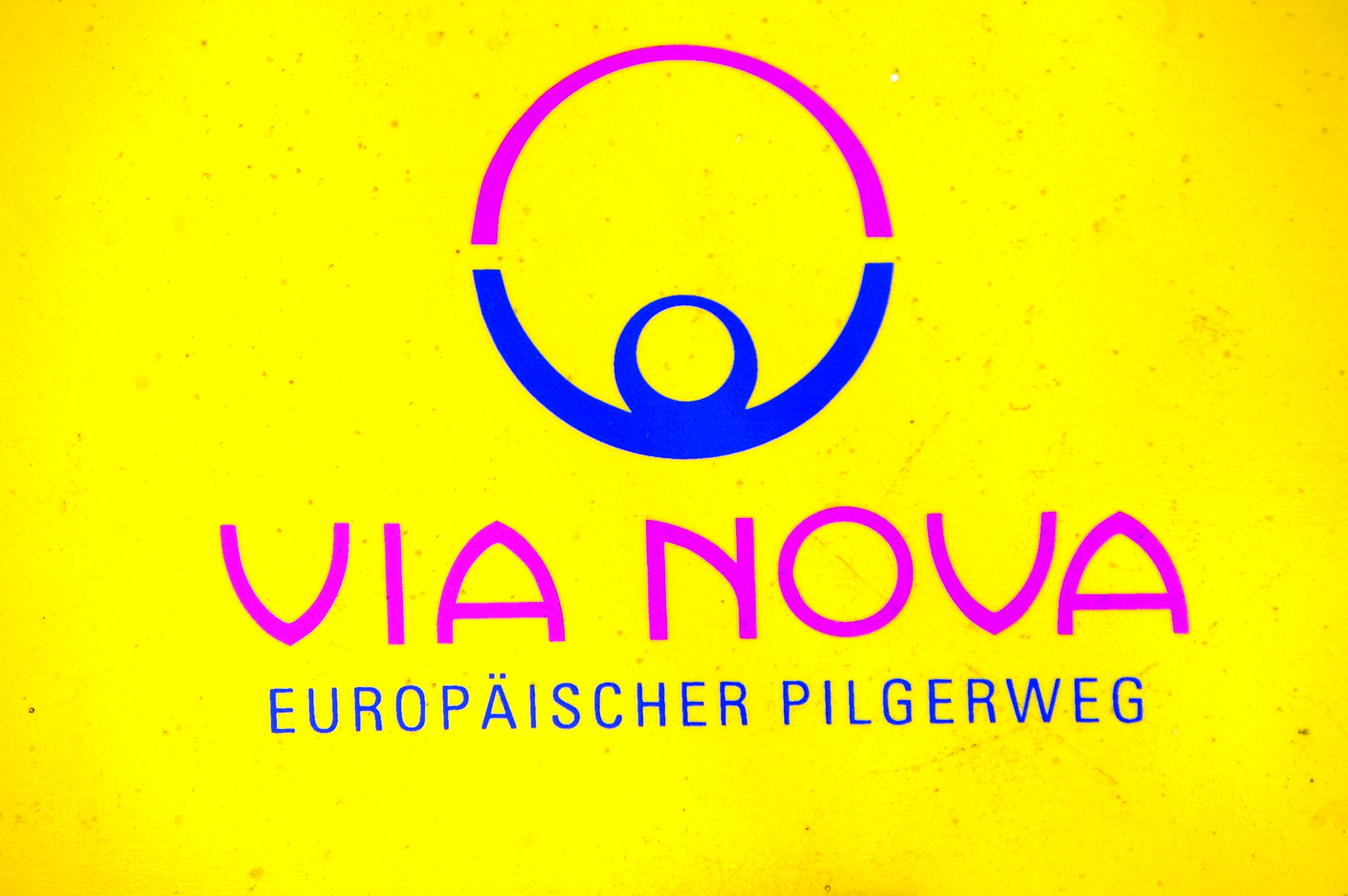 logo